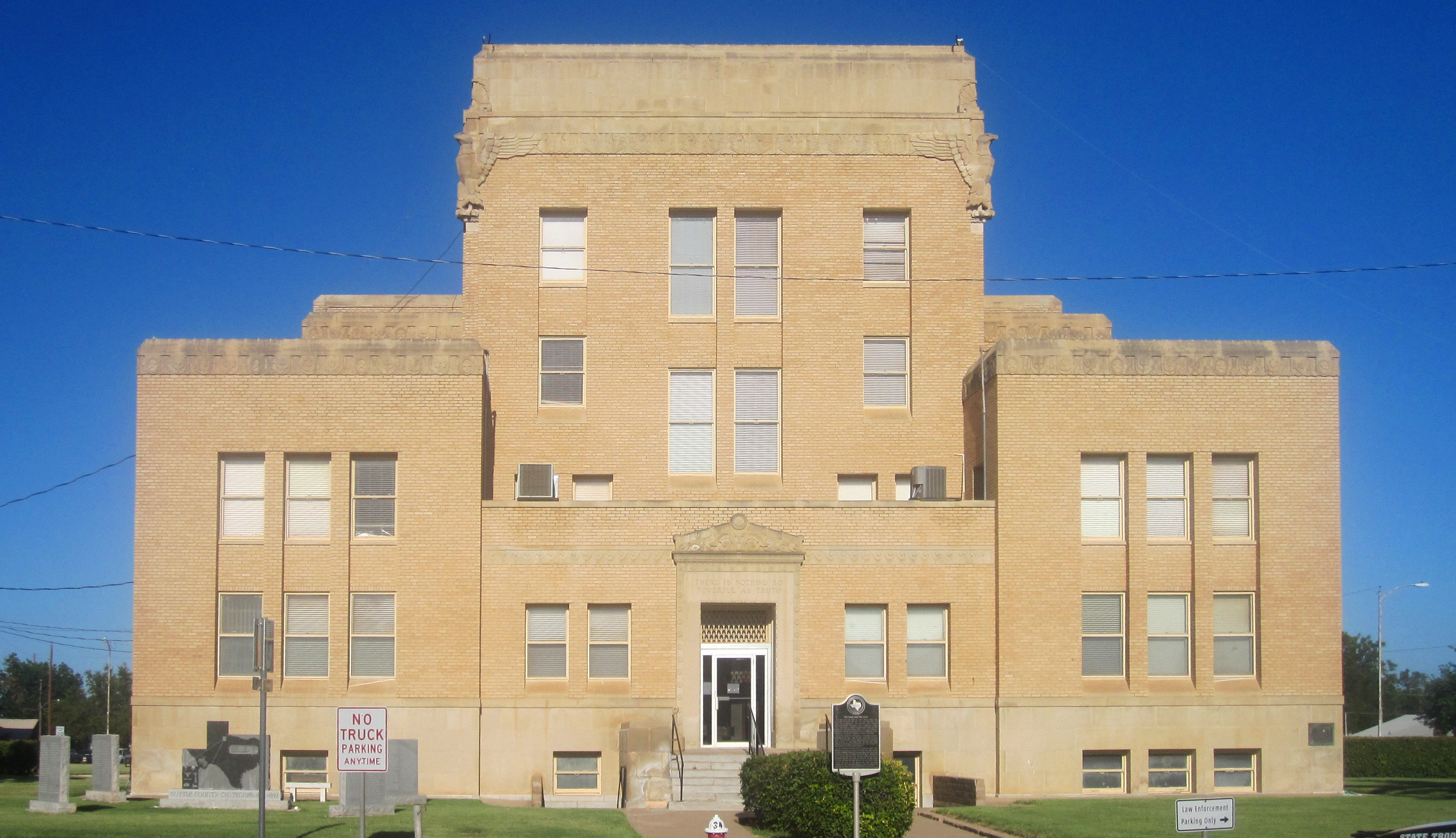 Cottle County, Texas Courthouse. I took photo in Cottle County, TX, with Canon camera.